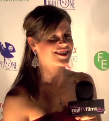 American actress Jamie Renée Smith interviewed by RealTVFilms